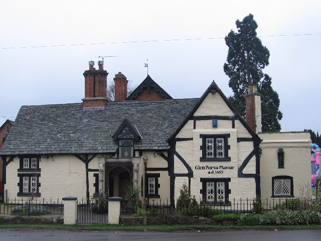 Glen Parva Manor House. a lovely pub and restaurant